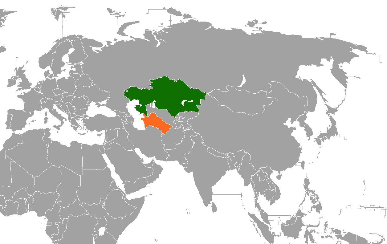 Map of the world indicating Kazakhstan and Turkmenistan